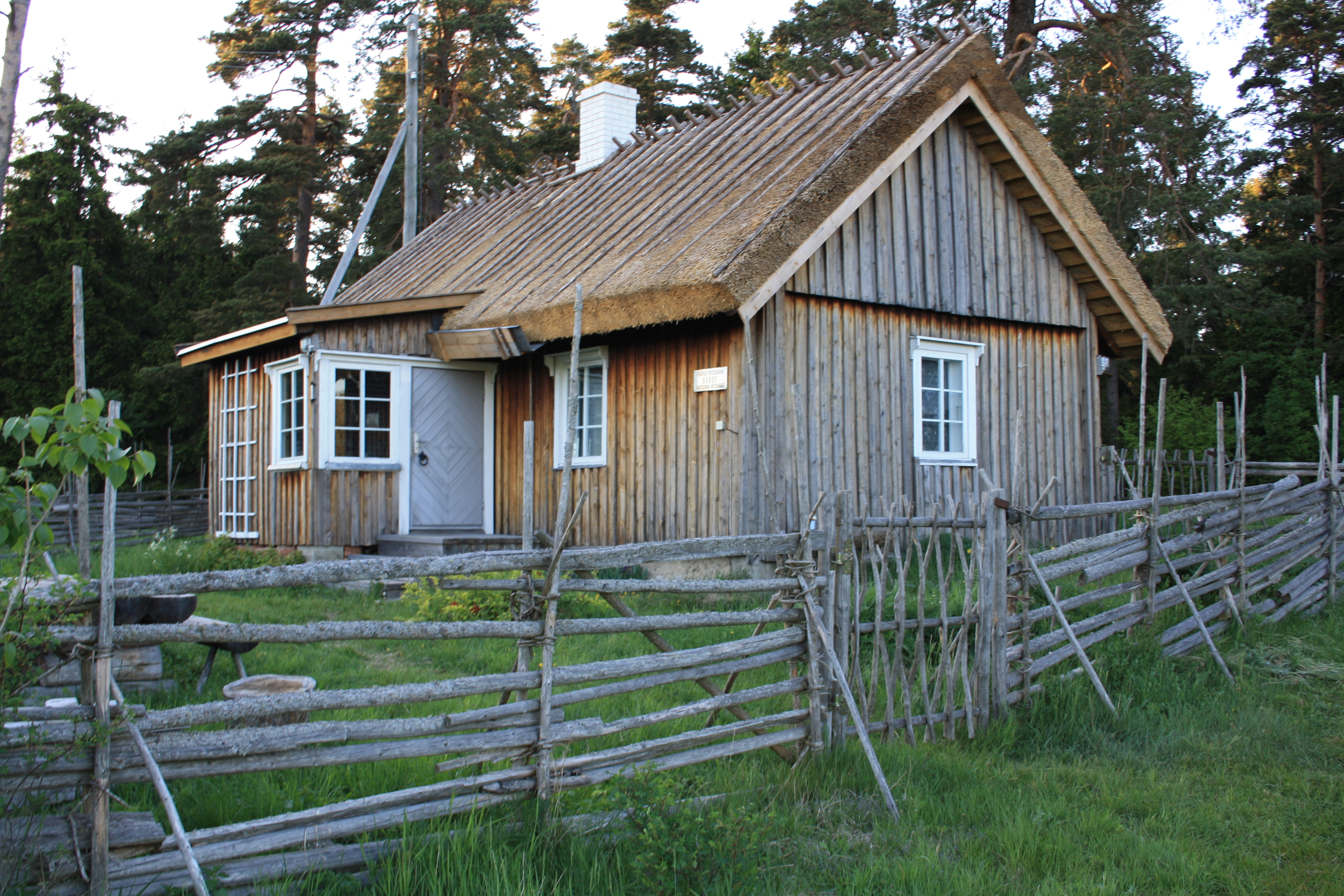 The woodman's cottage on Vormsi island in Estonia